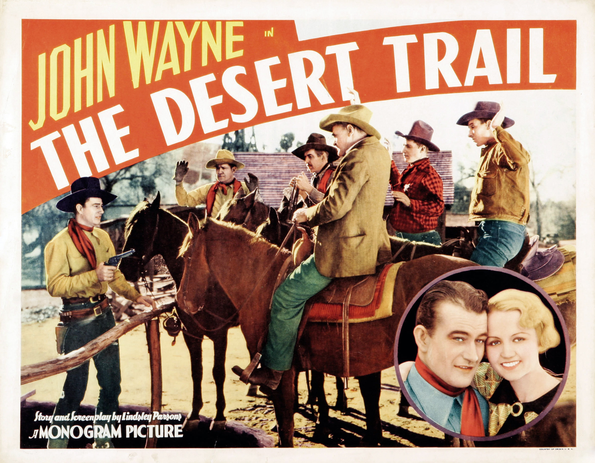 The Desert Trail (with John Wayne and Frank Brownlee) - lobby card